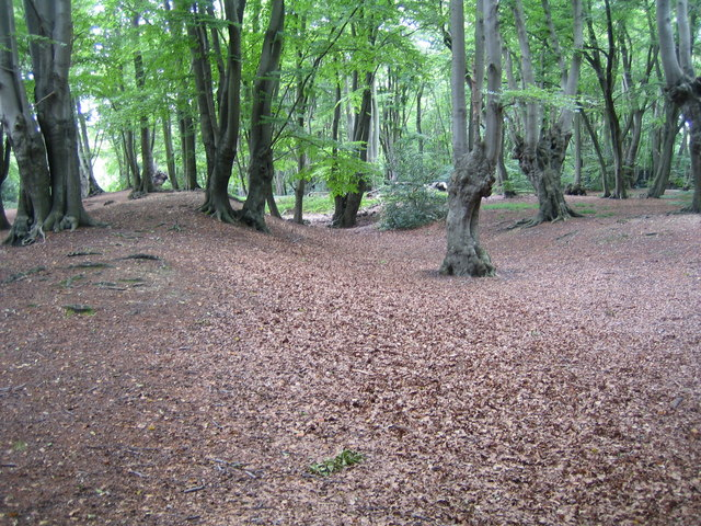 Prehistoric 'Loughton Camp' in the Epping Forest. Loughton Camp is one of two ancient earthworks in Epping Forest, the other being Ambresbury Banks. They were constructed around 500 BCE, and were used variously as animal folds, look-out posts, and boundary markers between tribes. There is some evidence to suggest that they may have been in use until after the Roman invasion. The banks enclose about four hectares of land and when built would have been about three metres high with ditches about three metres deep. The highwayman Dick Turpin was rumoured to have had a cave or hideout here. Located near Loughton in the Epping Forest District of Essex, and Greater London.